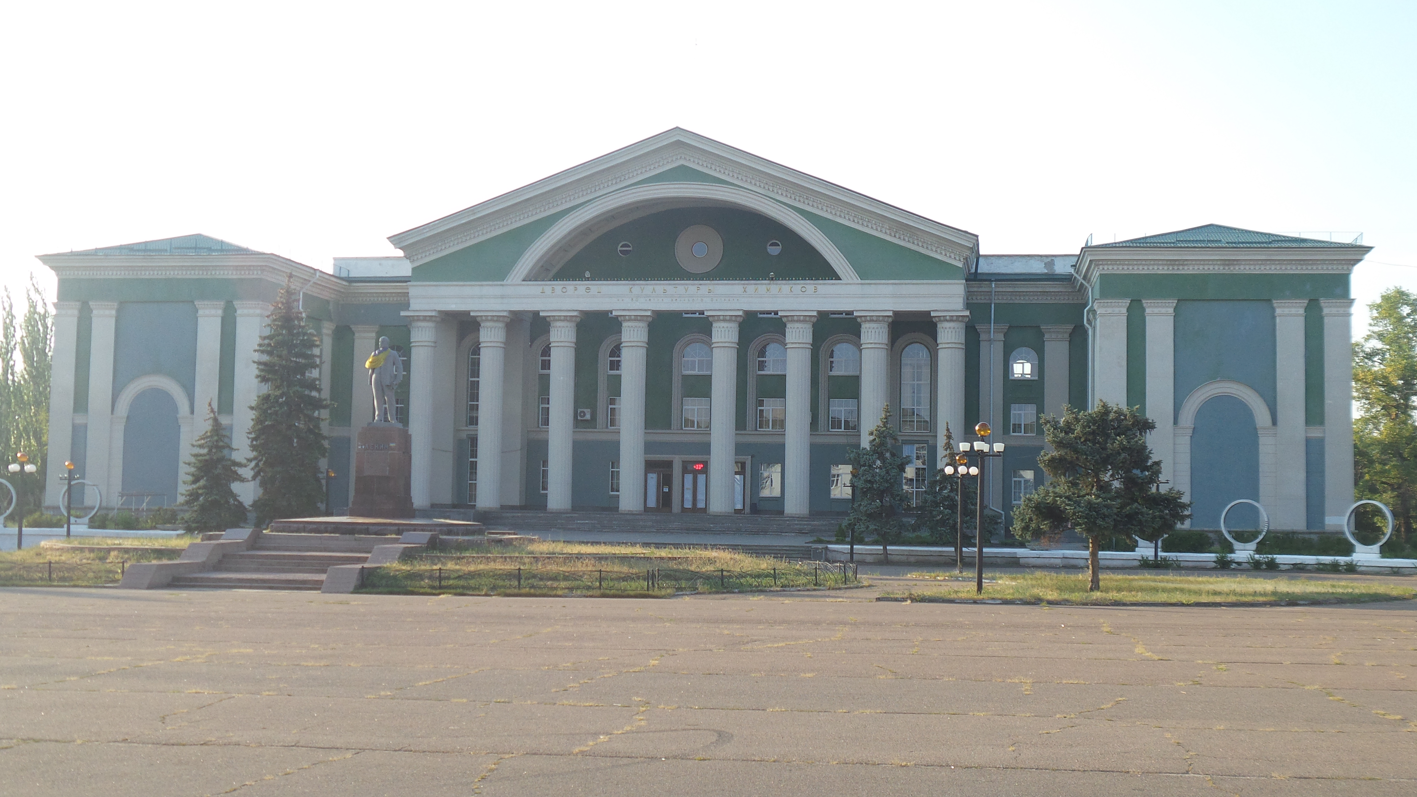 Syevyerodonetsk after liberation. Lugansk region.